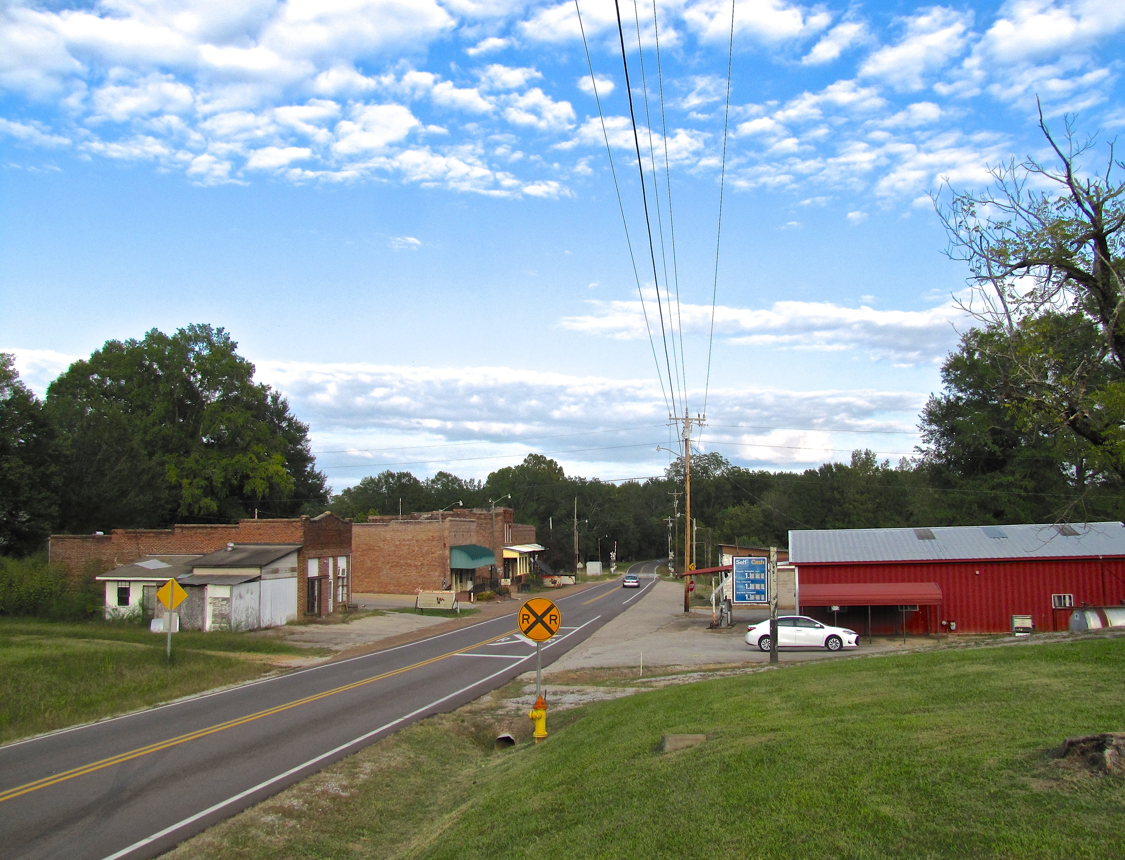 Buildings along Tennessee State Route 199 in Finger, Tennessee, United States.